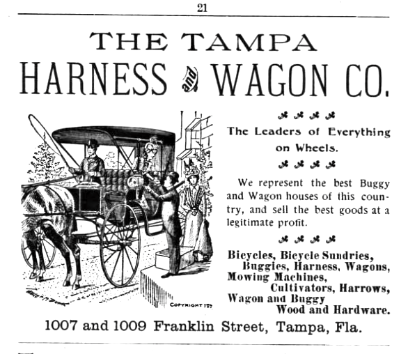 Advertisement for business in Tampa, Florida, USA